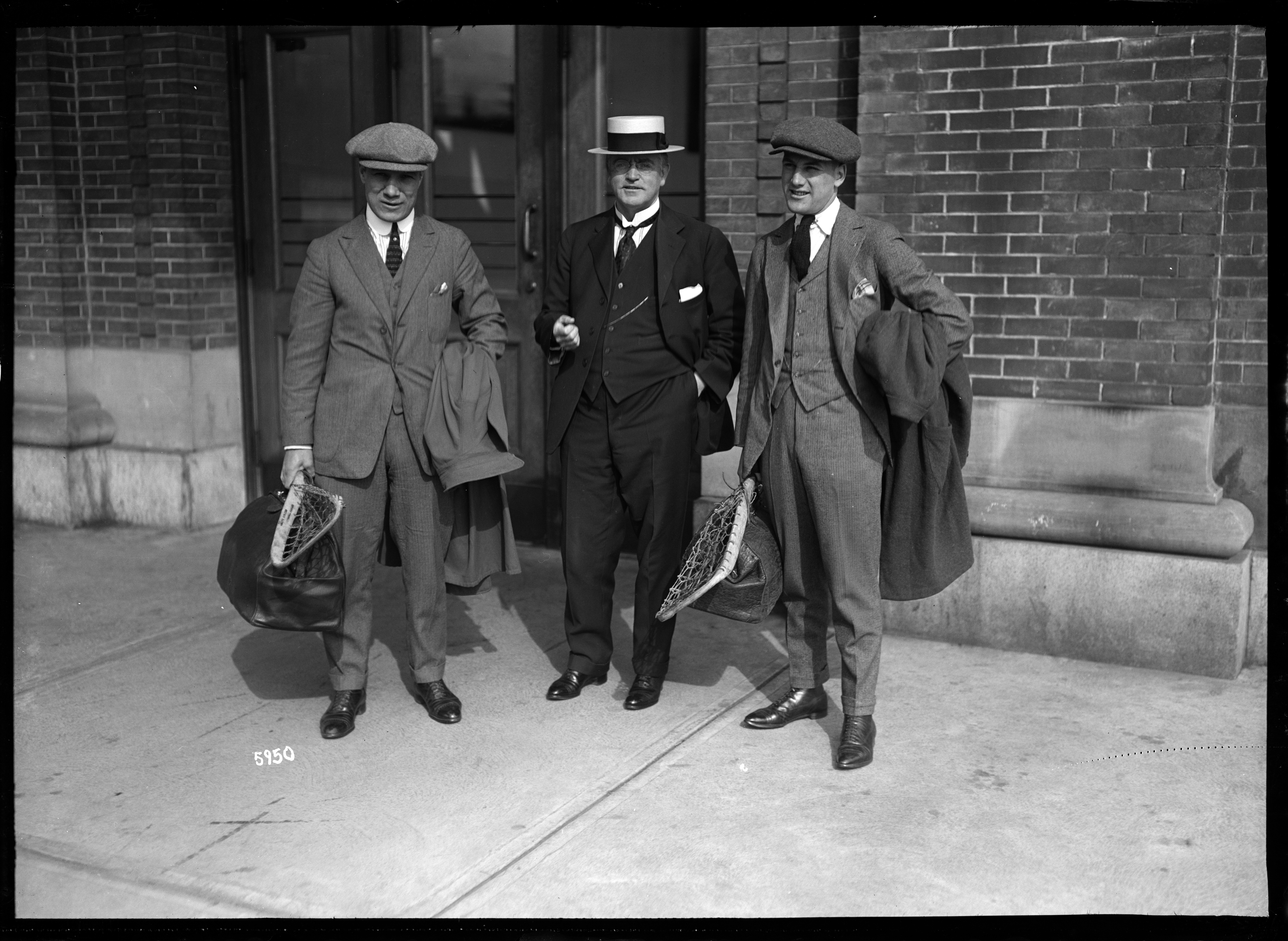 Mr. Con Jones with Lalonde and Dandurand VPL Accession Number: 35177 Date: 1912 Photographer/Studio: Thomson, Stuart Content: 'Famous promoter, Con Jones, who built Callister Park, imported Newsy Lalonde (for reported $3,500) left, and Leo Dandurand from east in 1912, the year Vancouver won world lacrosse championship. Lalonde was voted outstanding lacrosse star of last 50 years. Dandurand was later president of both Montreal Canadiens Hockey Club and Alouettes Football club' from Vancouver Sun Jan. 11, 1956 Topic: Lacrosse Sports Men's clothing Hats Person: Jones, Con, d. 1942 Lalonde, Edouard Cyrille (Newsy), 1887-1970 Dandurand, Joseph Viateur (Leo), 1889-1964 Location: British Columbia - Vancouver More information on our historical photograph collection